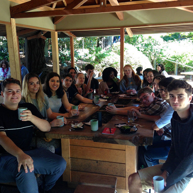 Students from a University of San Francisco course named Golden Gate Park enjoy tea and snacks at the Tea House in the Japanese Tea Garden